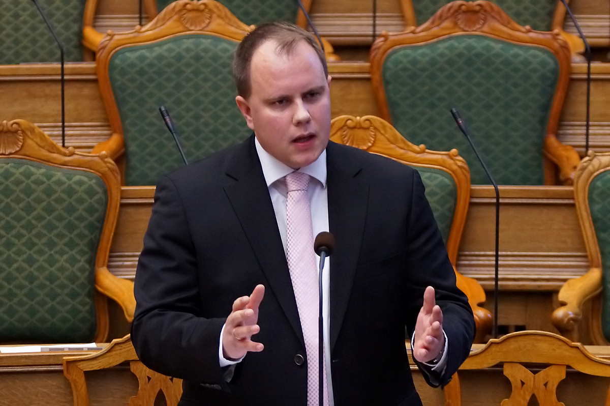 Martin Henriksen - Danish politician and MP from Danish People's Party (DF) during meeting in The Danish Parliament "Folketinget", december 2012